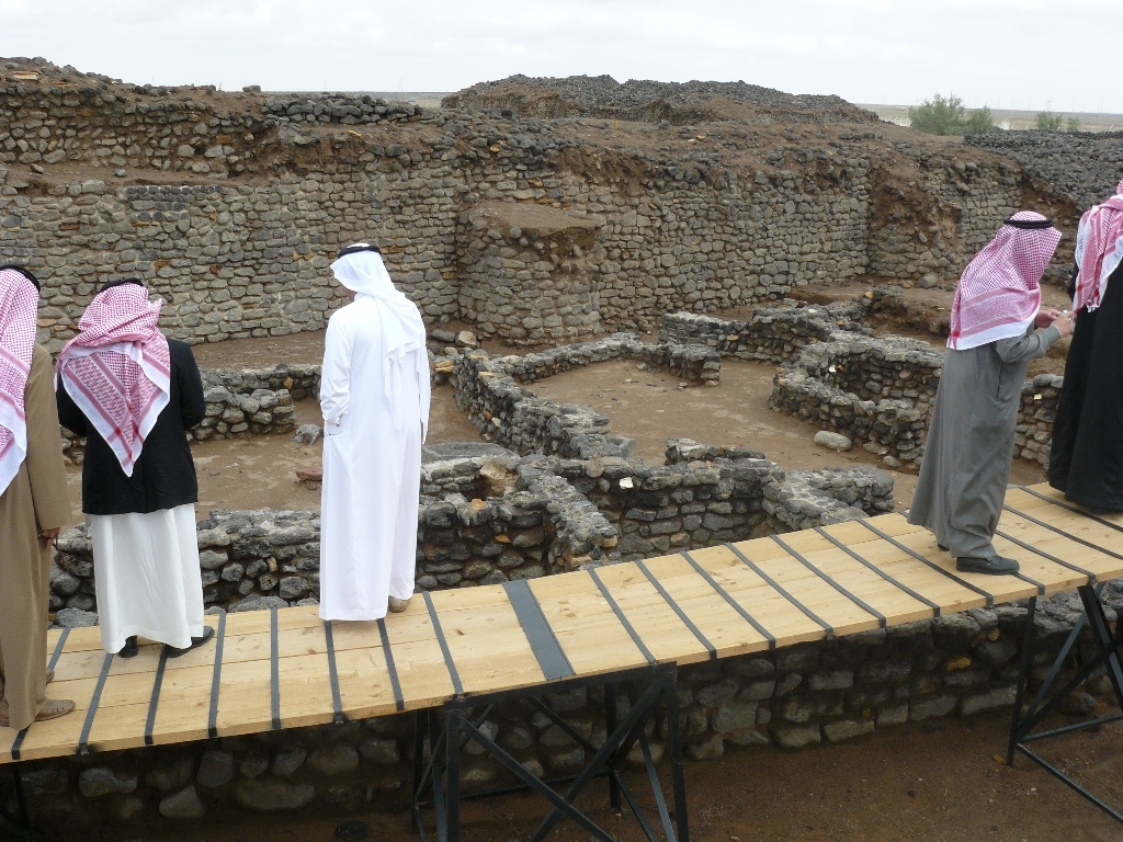 اثار ومواقع أثرية في فيد